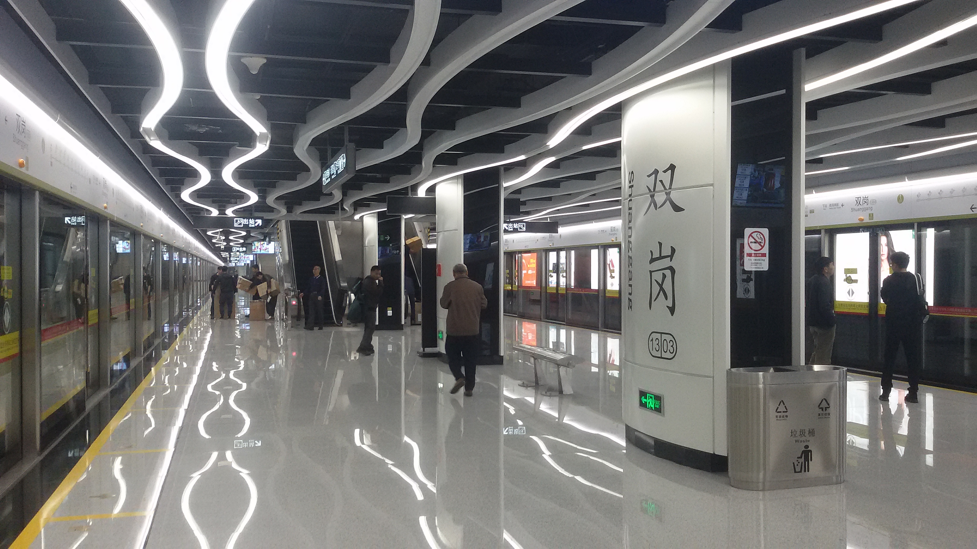 Station Platform for Shuanggang Station in Guangzhou Metro.